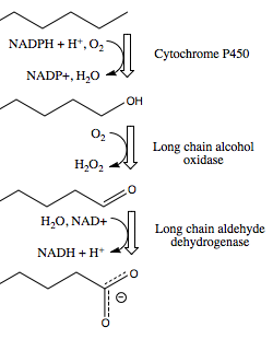 The long-chain alkane/omega-oxidation pathway. An enzyme of the cytochrome P450 family converts an alkane to an alcohol, which is converted to an aldehyde by an oxidase (or a dehydrogenase), which is converted to a carboxylic acid by a dehydrogenase.